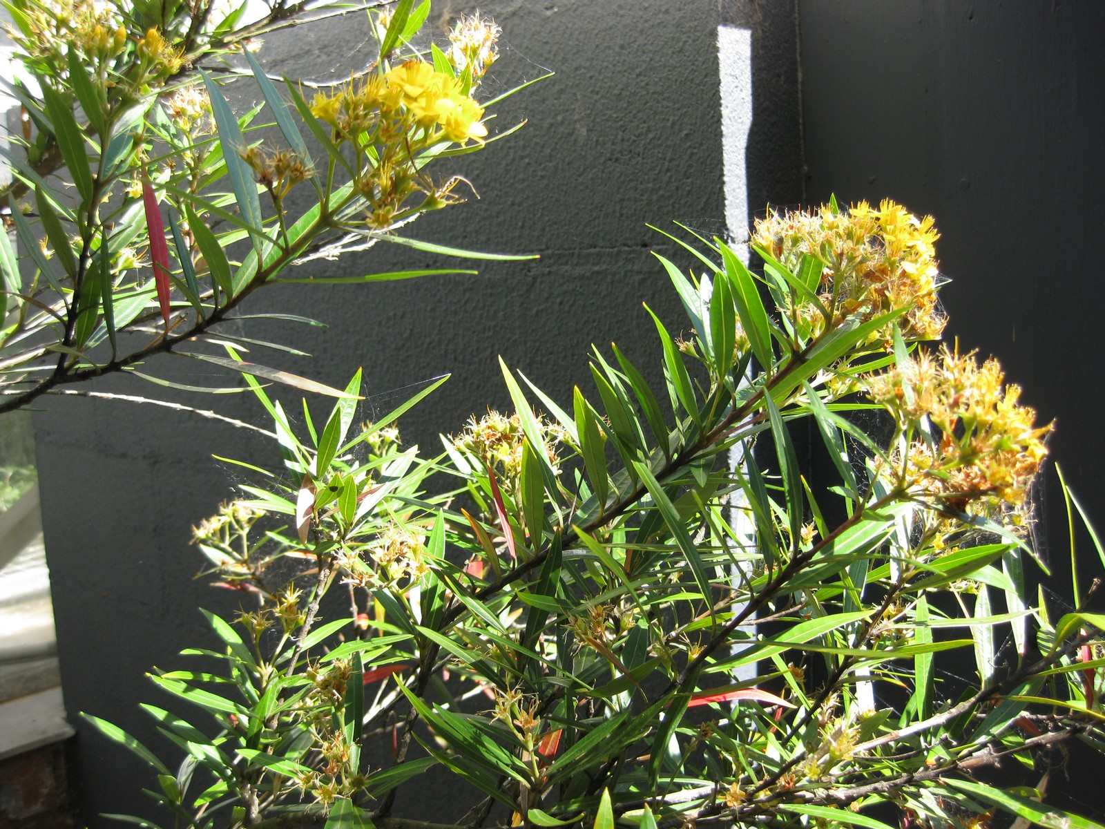 Photographed at the Royal Botanic Gardens Sydney (Australia) in December